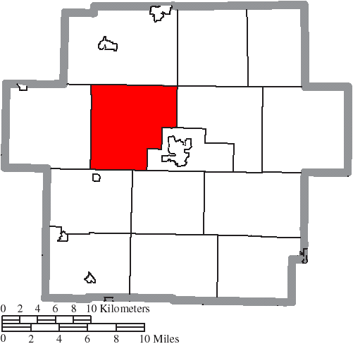 Map of the municipal and township boundaries of Carroll County, Ohio, United States, as of the 2000 census, with the location of Harrison Township highlighted. Township borders are shown only in unincorporated areas in order to differentiate incorporated and unincorporated areas more clearly.